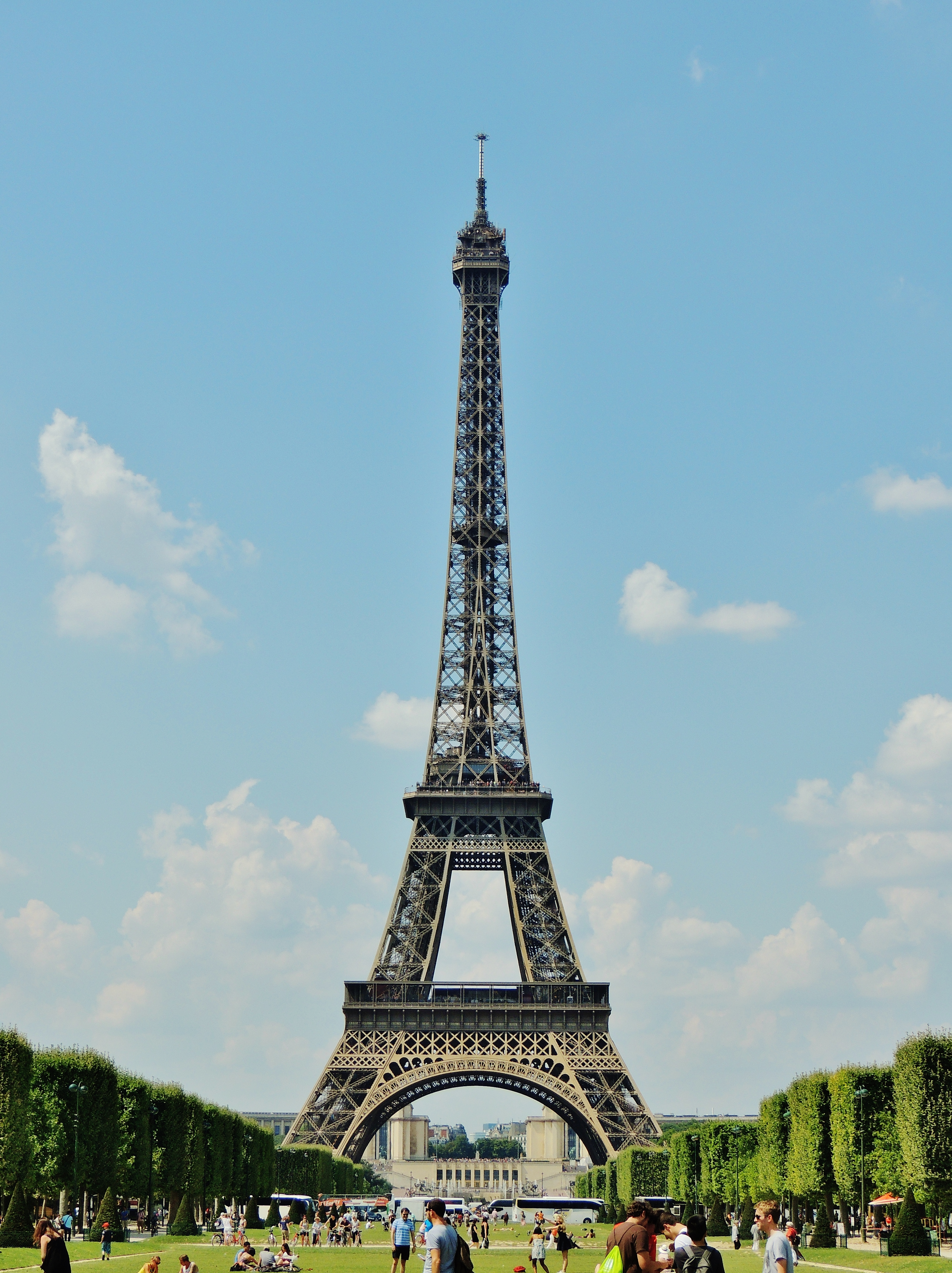 View of the Eiffel Tower from the ground